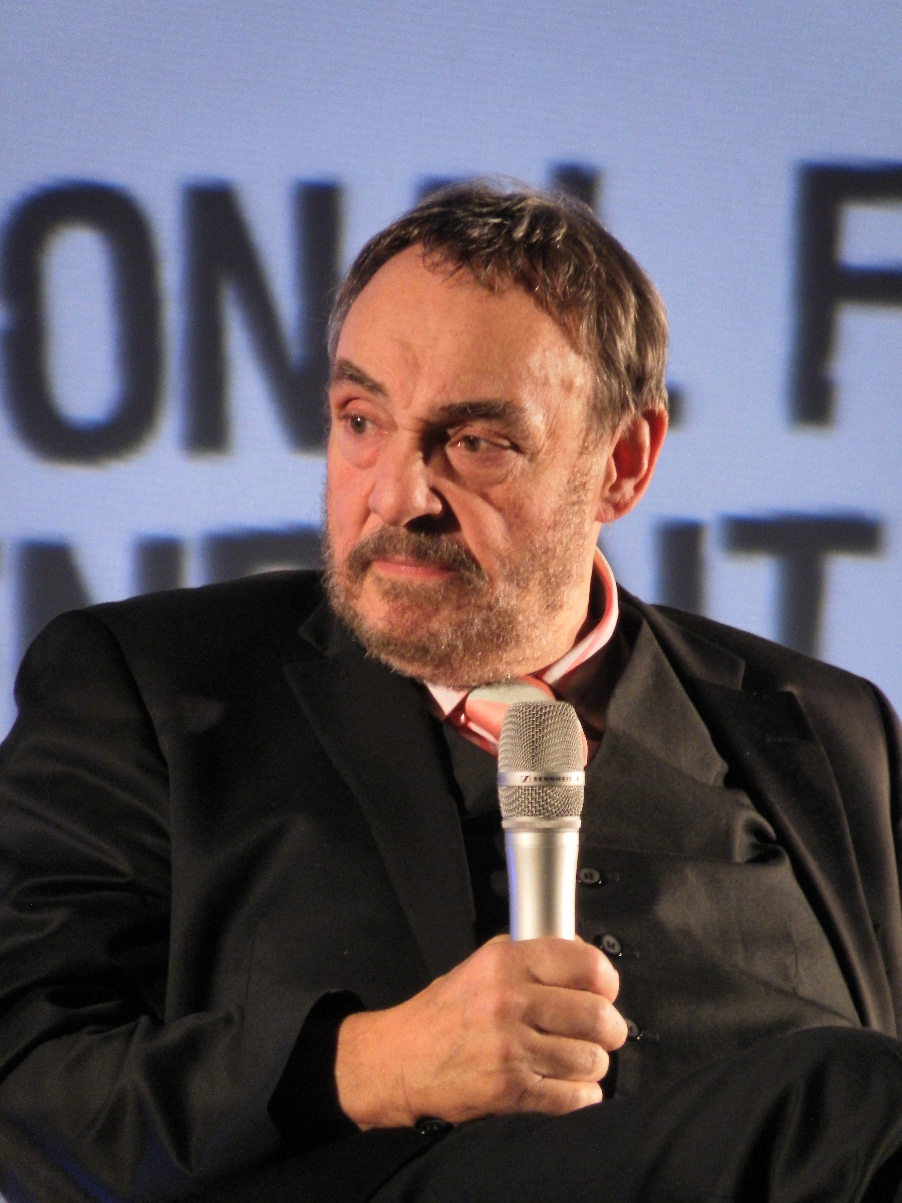 Welsh actor John Rhys-Davies giving master class during 6th edition of International Festival of Independent Cinema Off Plus Camera in Kijów Cinema, Kraków, 2013.